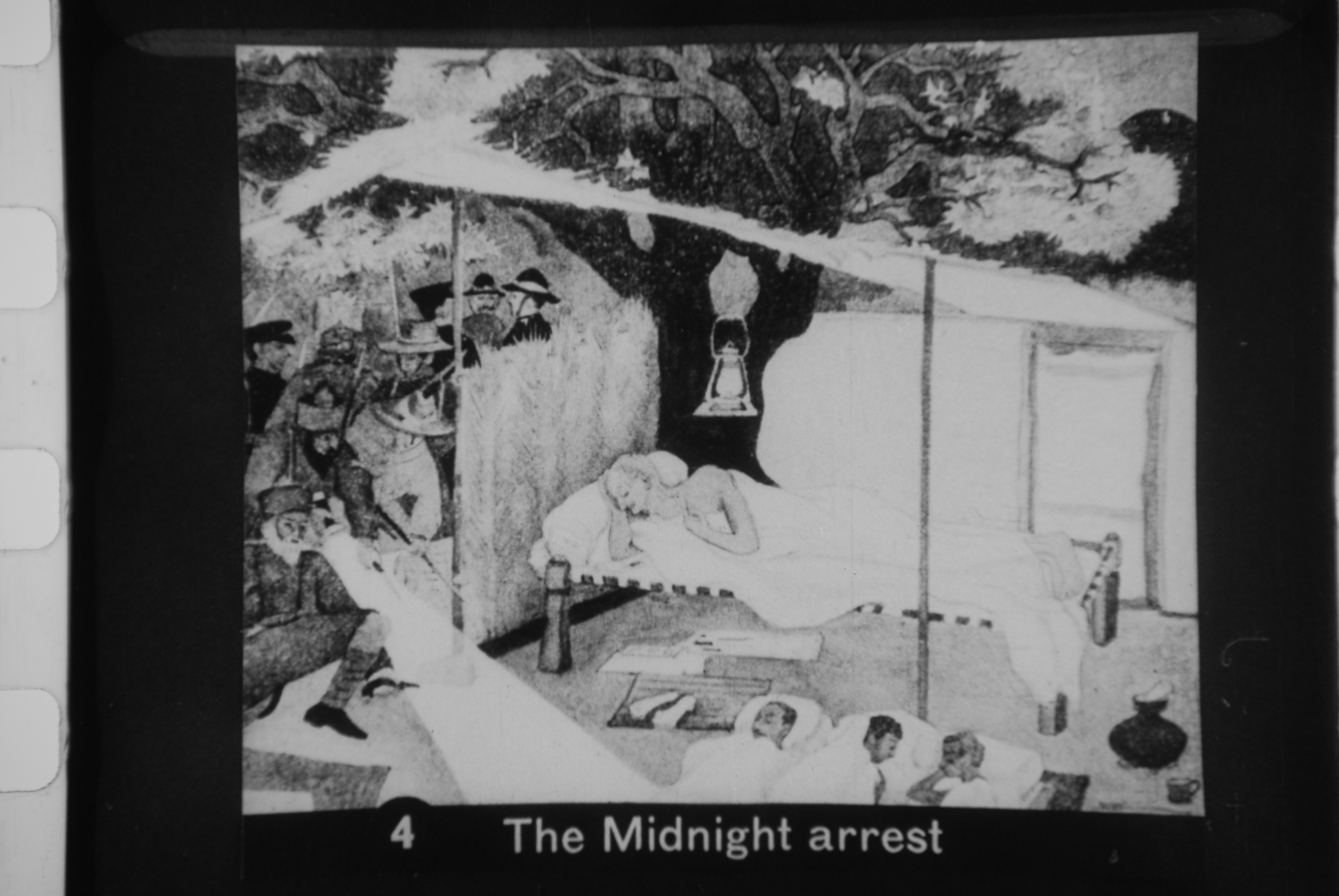 Arrest of Gandhi during the Salt Satyagraha, 1930.